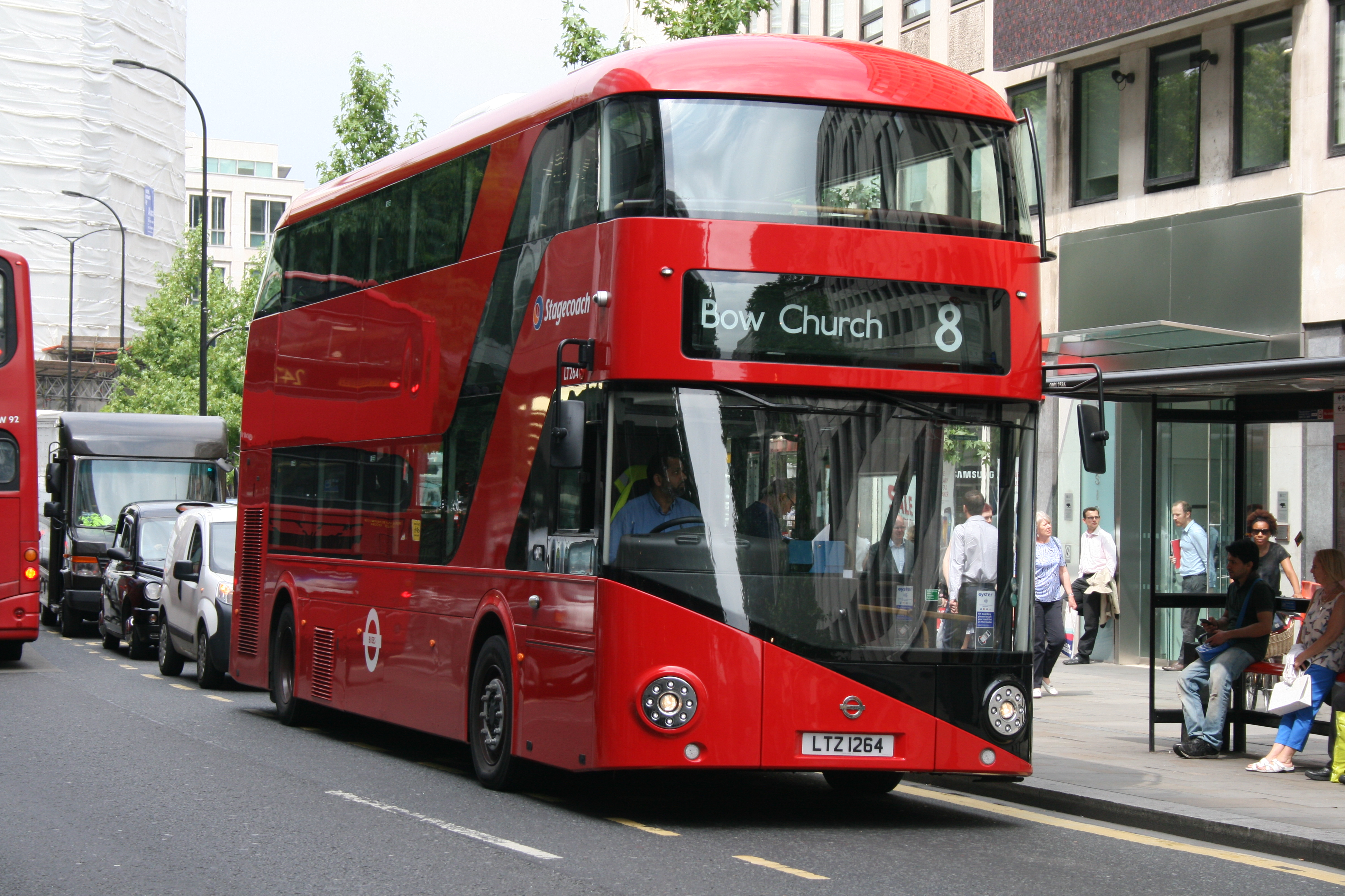 Stagecoach London LT264 on Route 8, St Paul's